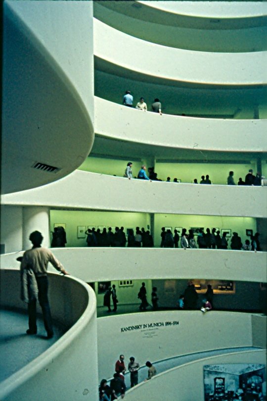 Permission: please cite Rainer Halama as author of this picture. I would also appreciate it, if you inform me when using this picture about where and when it has been used. Solomon R. Guggenheim Museum, New York City, Interior